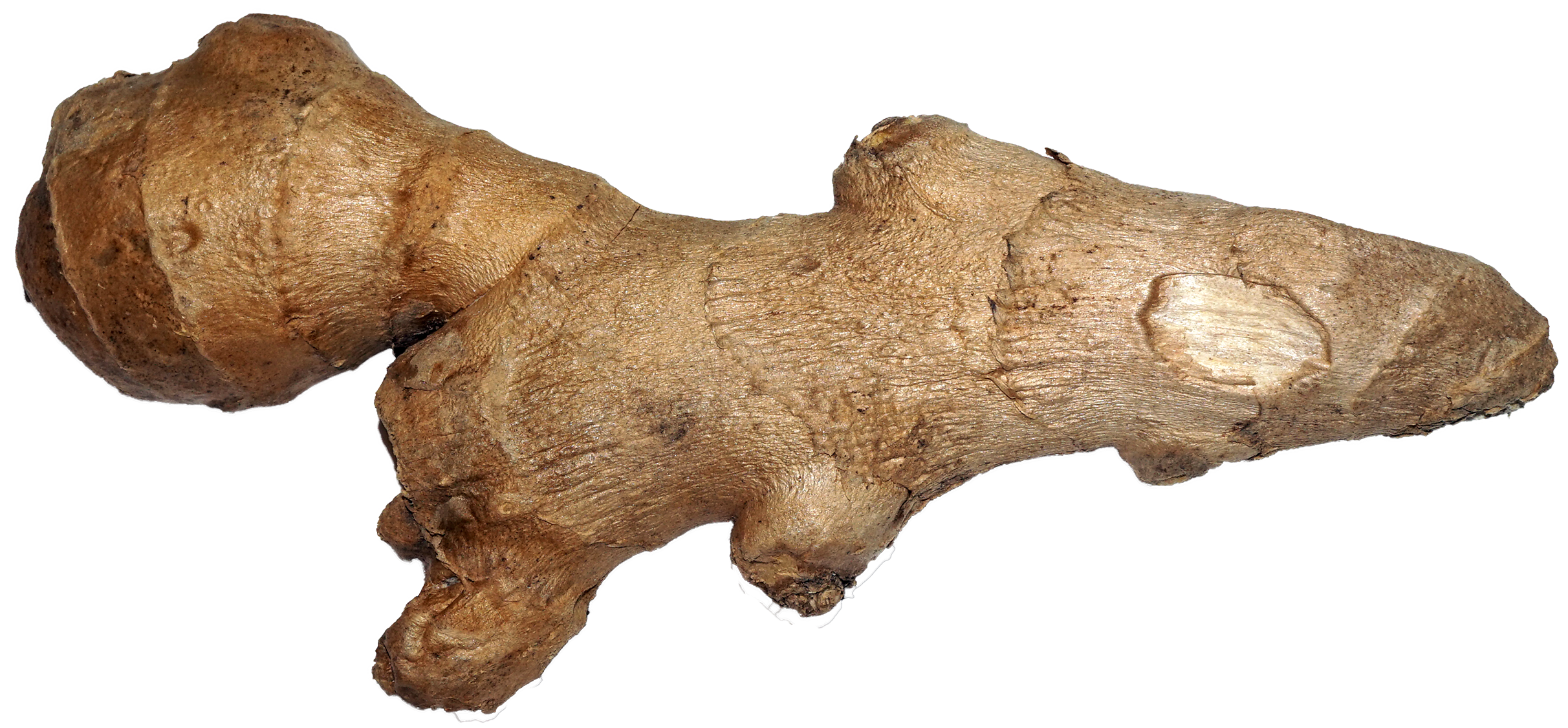 Ginger.